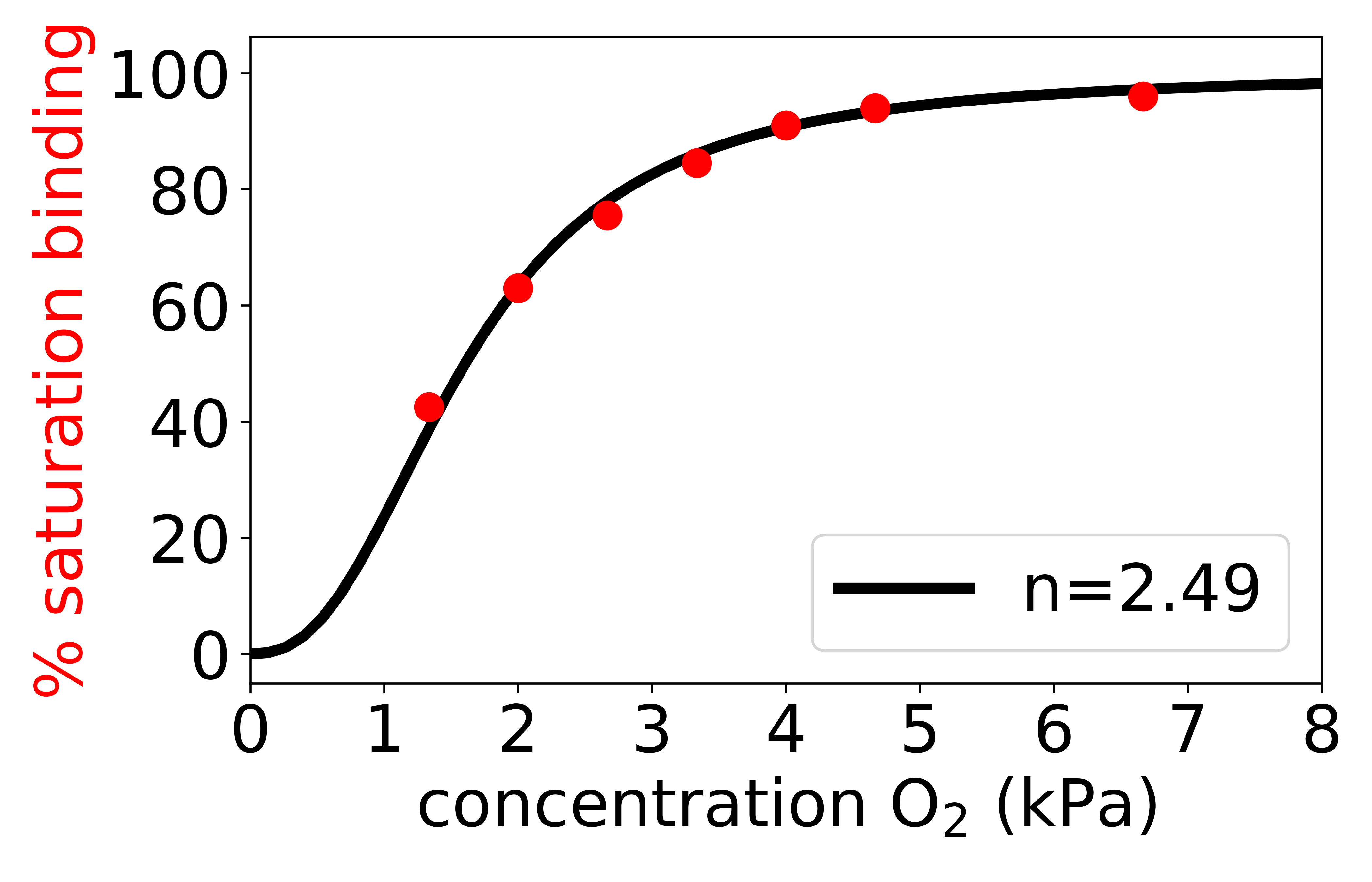 x axis is the O2 concentration converted from Hill's 1910 paper (Hill, J Physiology 1910) mm O2 units to kPa using 1 mmHg = 0.1333 kPa. y axis is % saturation in binding of O2 to haemoglobin. Red circles are Hill's data set III, from work of Barcroft and Camis. Black curve is fit of Hill equation to this data, from that paper with Hill coefficient n=2.49